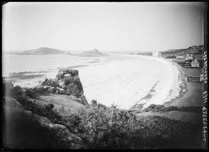 Trebeurden plage de Tresmeur